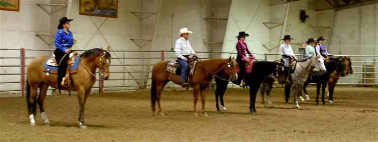 The lineup of a western pleasure class at a small schooling show